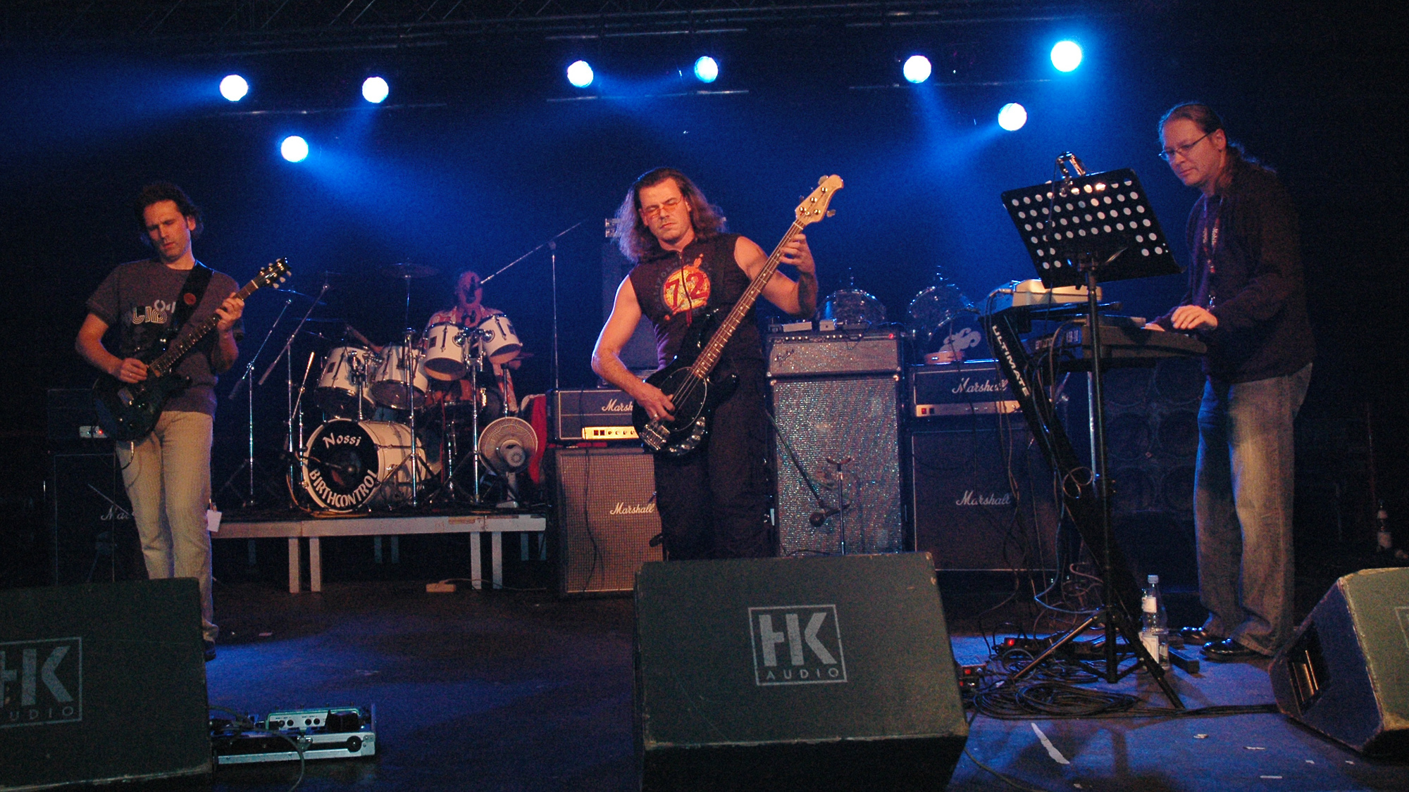 Birth Control in concert